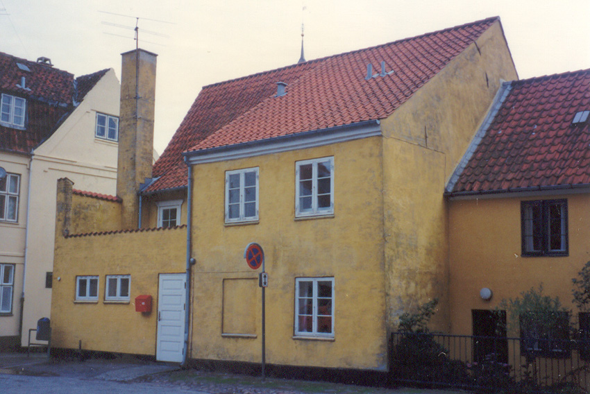 The rear wing of the Buxtehude House in Helsingør, Denmark